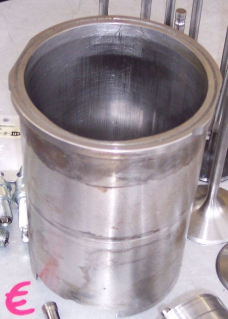 Zylinderbuchse/cylinder liner